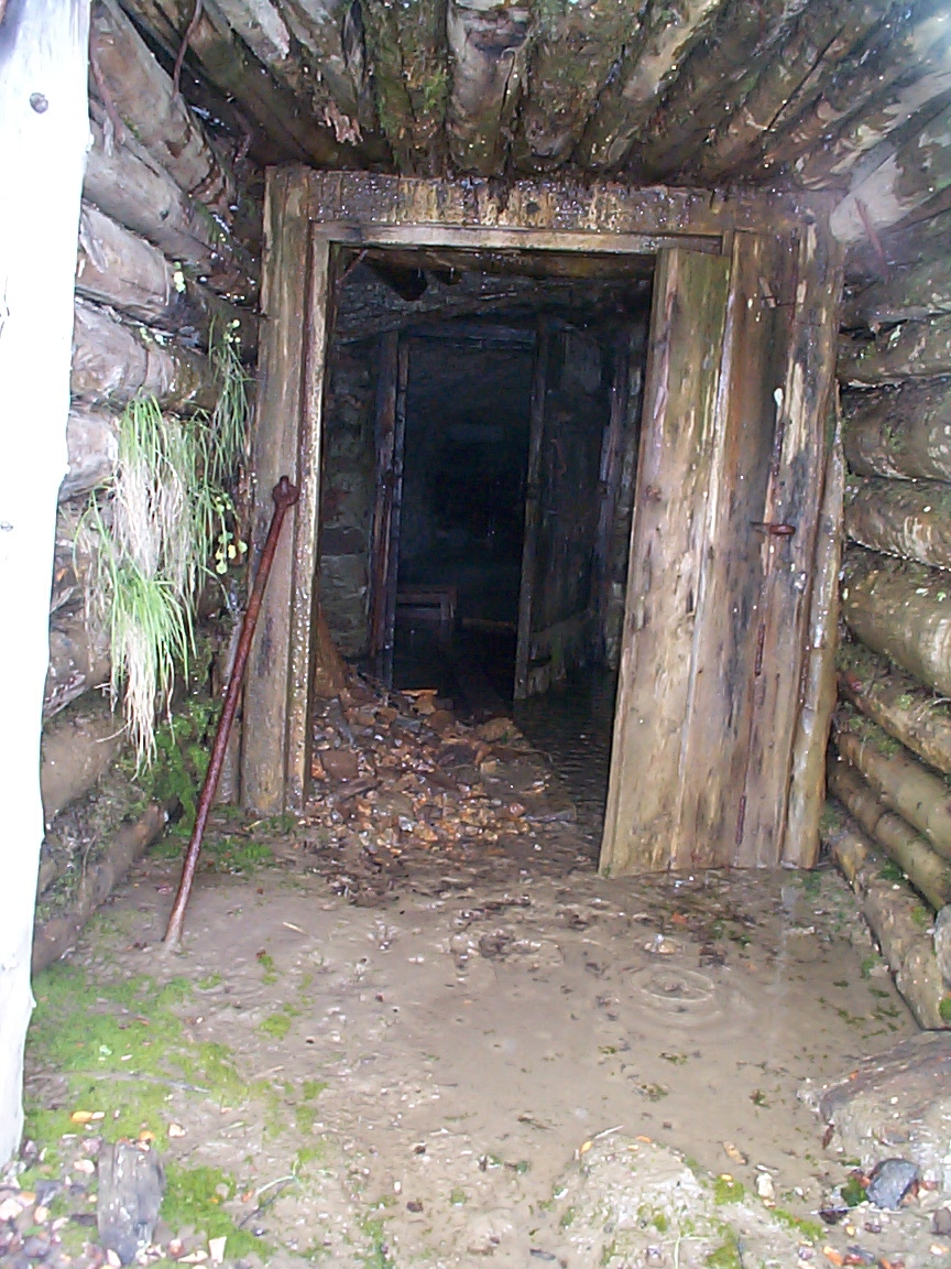 Adit doors at Butugycheg tin mine – a gulag prison camp until 1955 which finally closed in 1958. Note that the metal bar fastens the doors closed from the outside! Photo taken by self (Oxonhutch| (talk|)) on 5 September 2004.